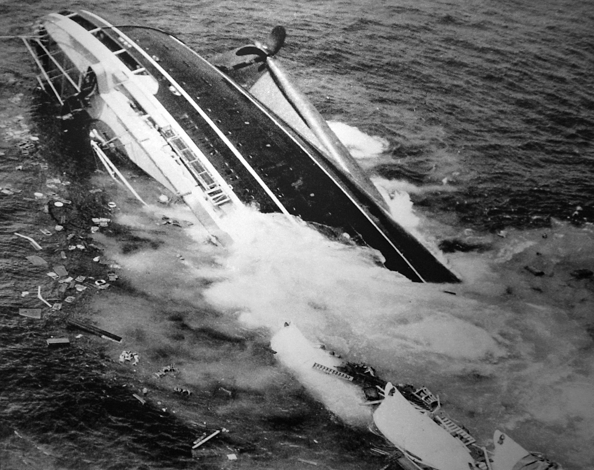 Photo of the SS Andrea Doria half submerged after colliding with the Swedish ship Stockholm off the coast of Nantucket Island, Massachusetts in July 1956. When Trask won the 1957 Pulitzer Prize for Photography for his photos of the sinking ship, this image was cited as the "key photograph" in the sequence.